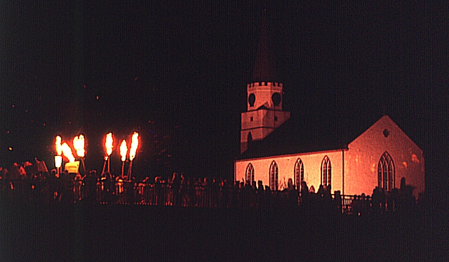 Comrie Flambeaux Procession Comrie celebrates the New Year with a torchlight procession on Hogmanay. This view shows the procession crossing the bridge over the River Earn, with the floodlit White Kirk beyond.